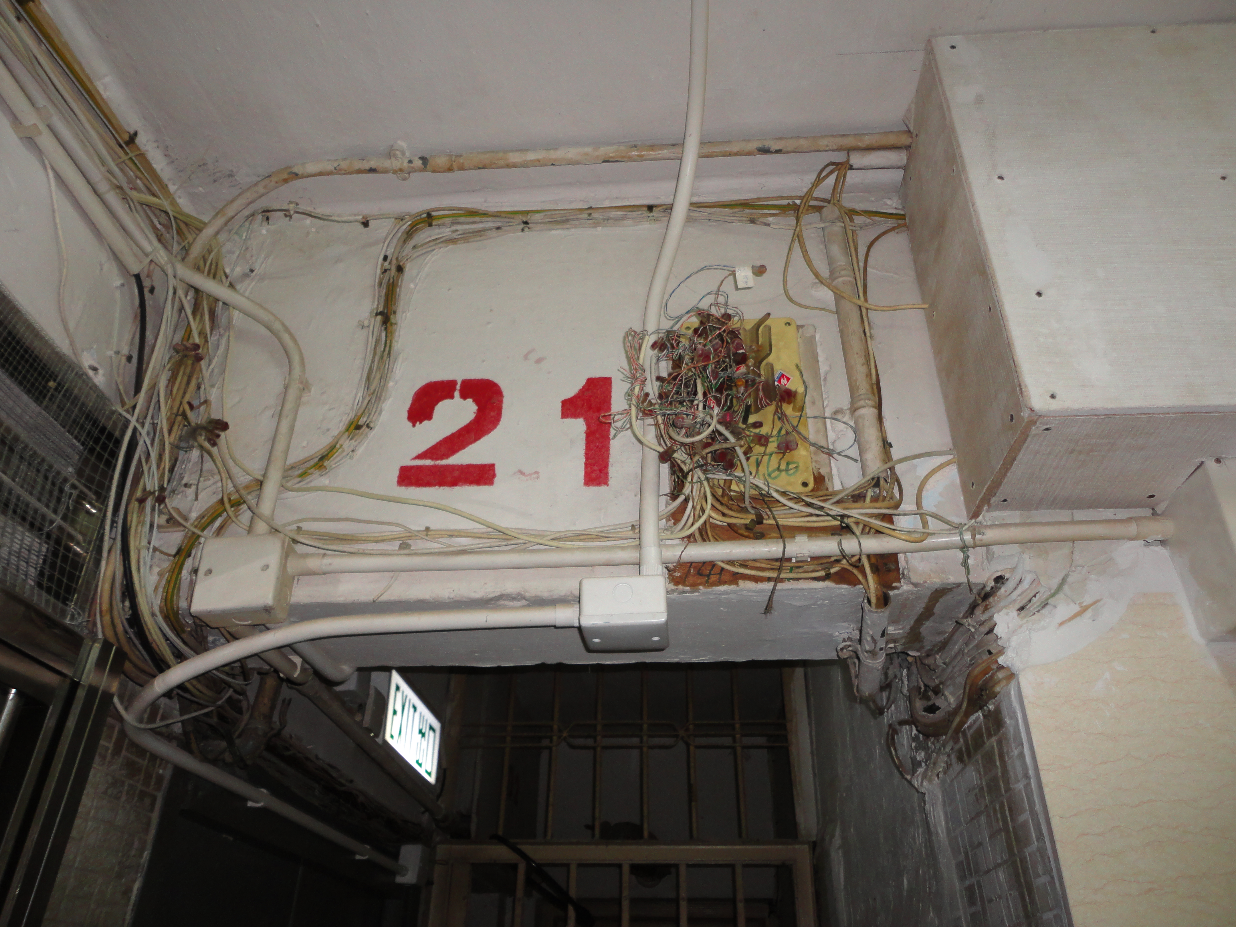 Electrical wiring in block D of Chungking Mansions